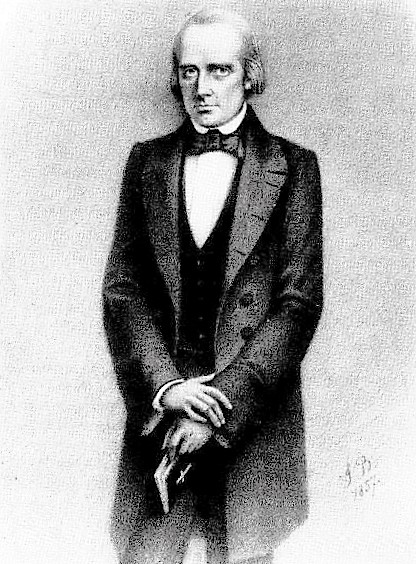 The German educator Karl Gottlieb Behm (1823-1856), the founder of Behm Boarding School in Vyborg, Finland.